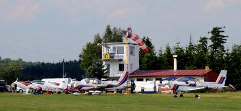 Aeroklub Toužim (LKTO)